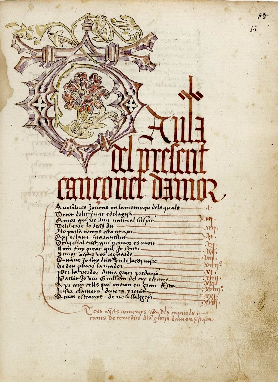 A page from a Catalan Cançoner